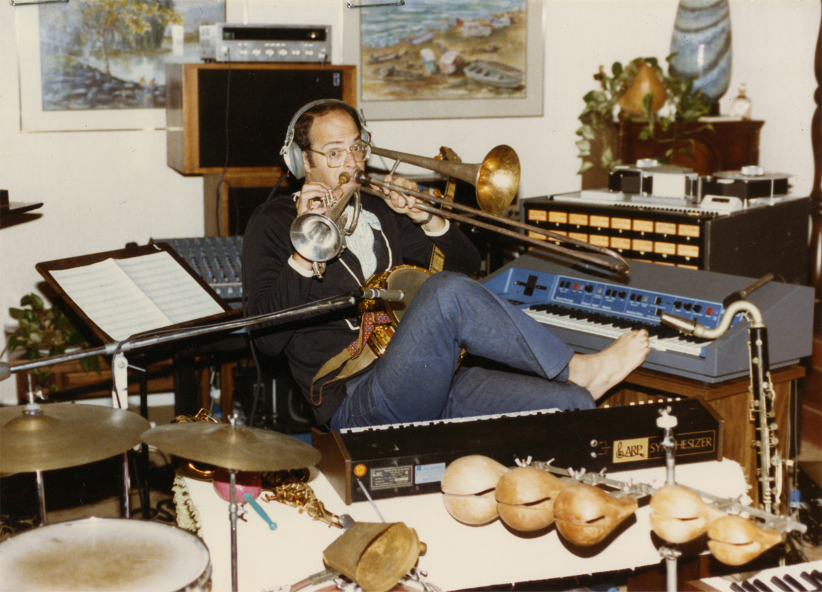 Laurence Wright, the composer of many films for Liberty Pictures, plus "Closet Cases of the Nerd Kind." "Meadowlark Lemon Presents the World," "Bird and the Robot," "Torture Test" and many others.